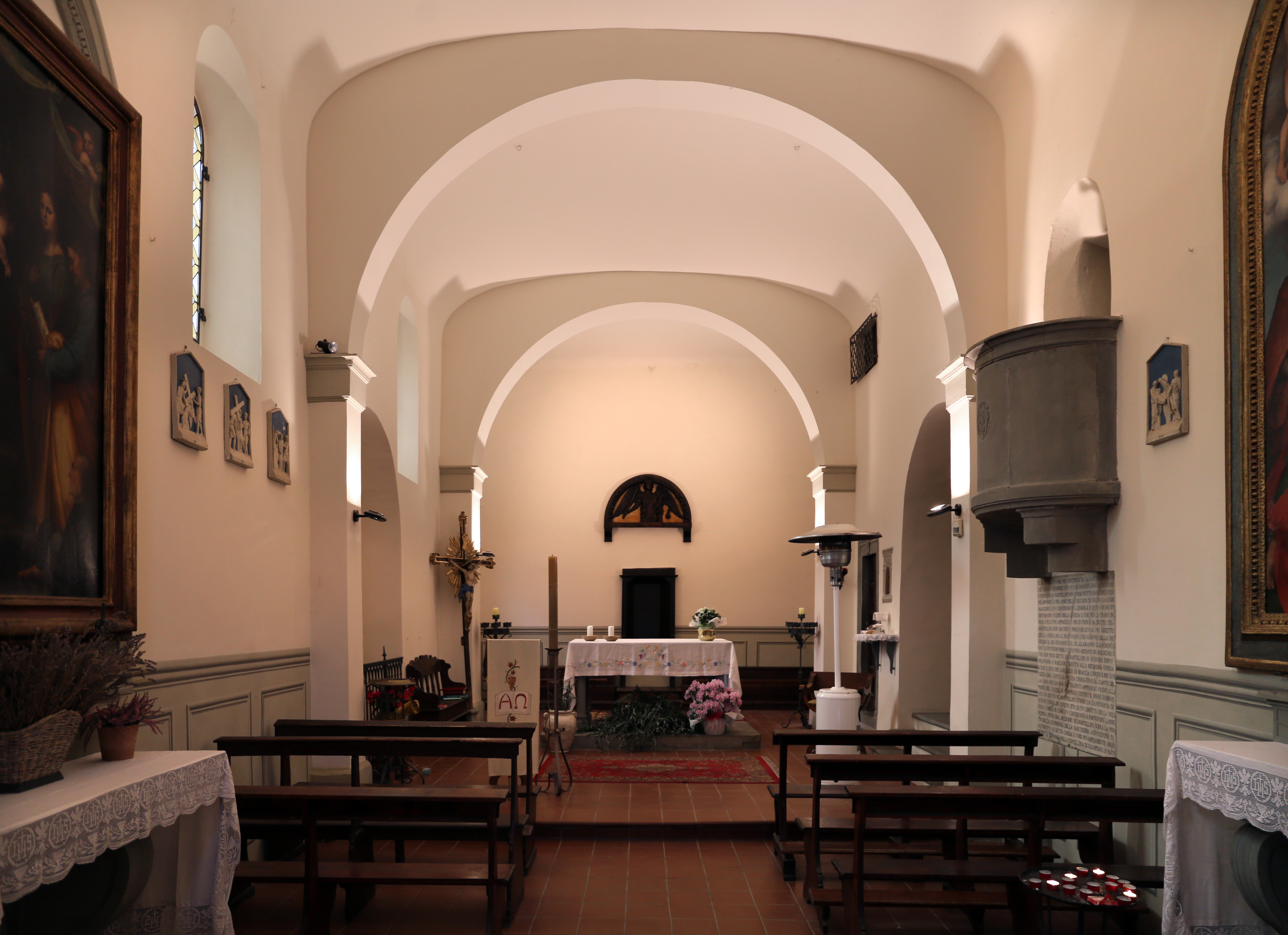 San Michele a Volognano